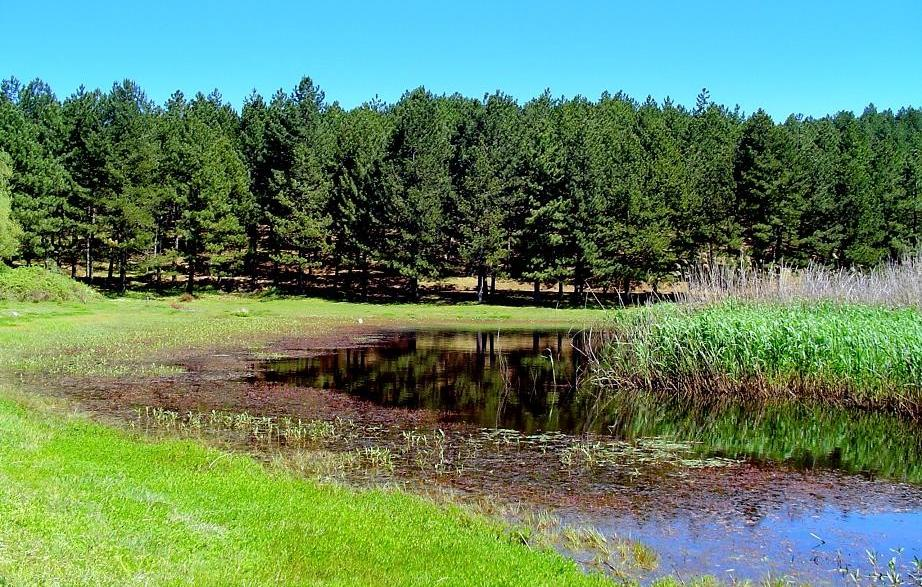 Süleymanlı Plateau near Buldan, Denizli Province, Turkey